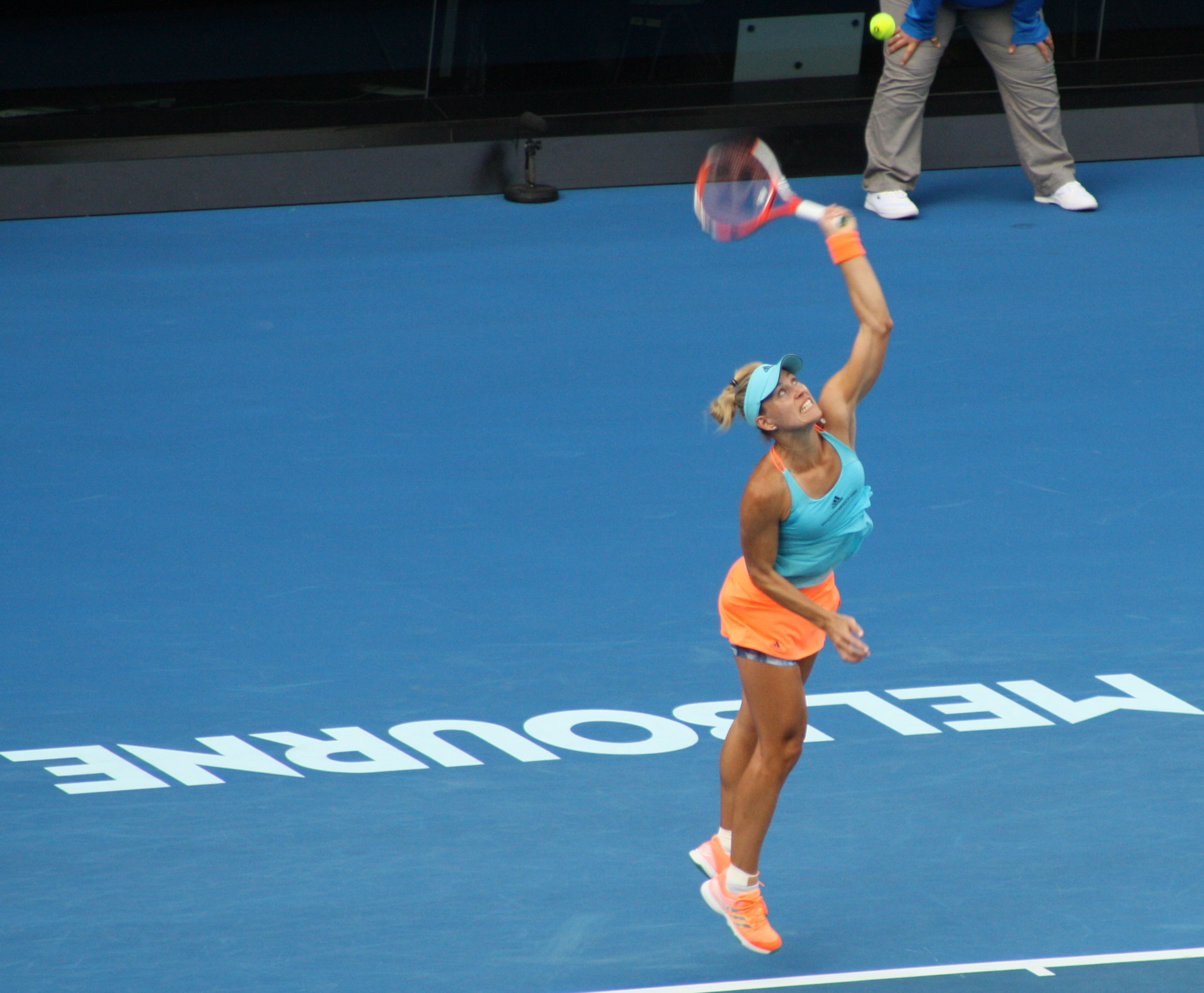 Angelique Kerber serving at the 2017 Australian Open